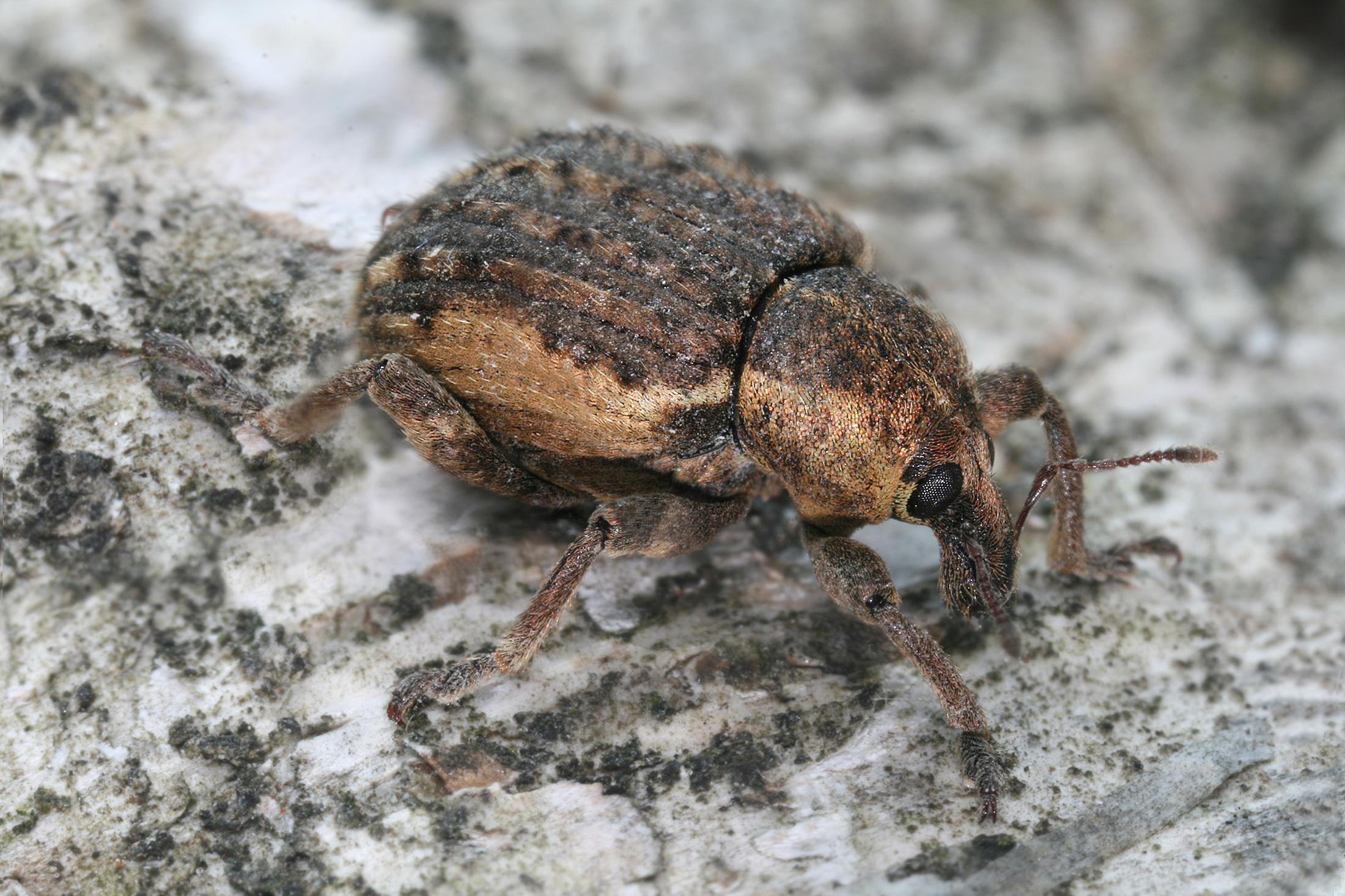 Description: Clover leaf weevil Hypera zoilus